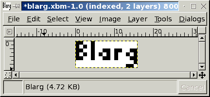 Visual representation of example image given in XBM article.